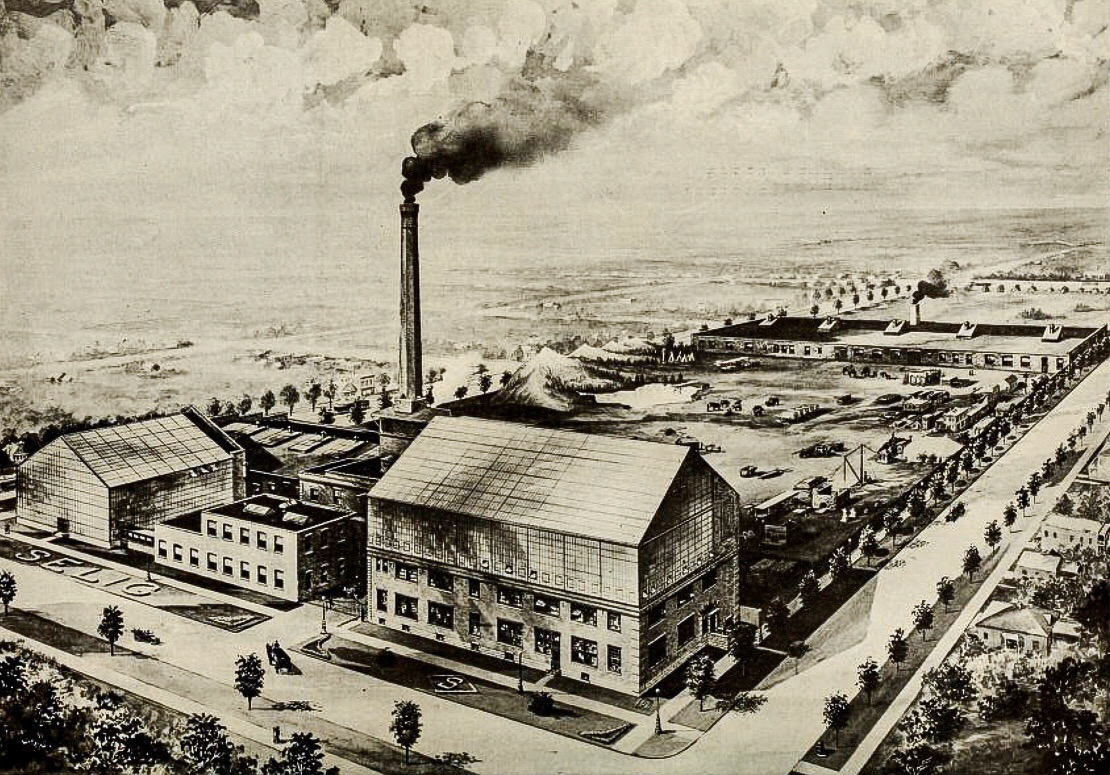 Detailed bird's-eye drawing of the Selig Polyscope Company's studio and backlot facilities in Chicago, Illinois, 1911; published in the trade publication Motography, July issue, 1911, p. 6. Full caption along drawing's lower border reads "General view of the Big Selig Plant at Western, Byron and Claremont Avenues, Chicago." Image shows the main set building with glassed-in upper floor and other support buildings, along with the company's extensive backlot areas, including exterior sets, a simulated mountain, a "large artificial lake", enclosures for a collection of wild and domesticated animals, and additional support structures for outdoor filming. Note the various types of animals grazing in the first backlot.